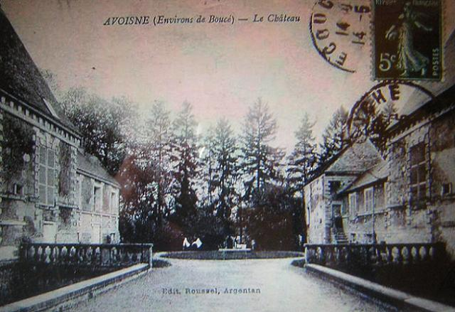 Castle of Avoines / Orne / France